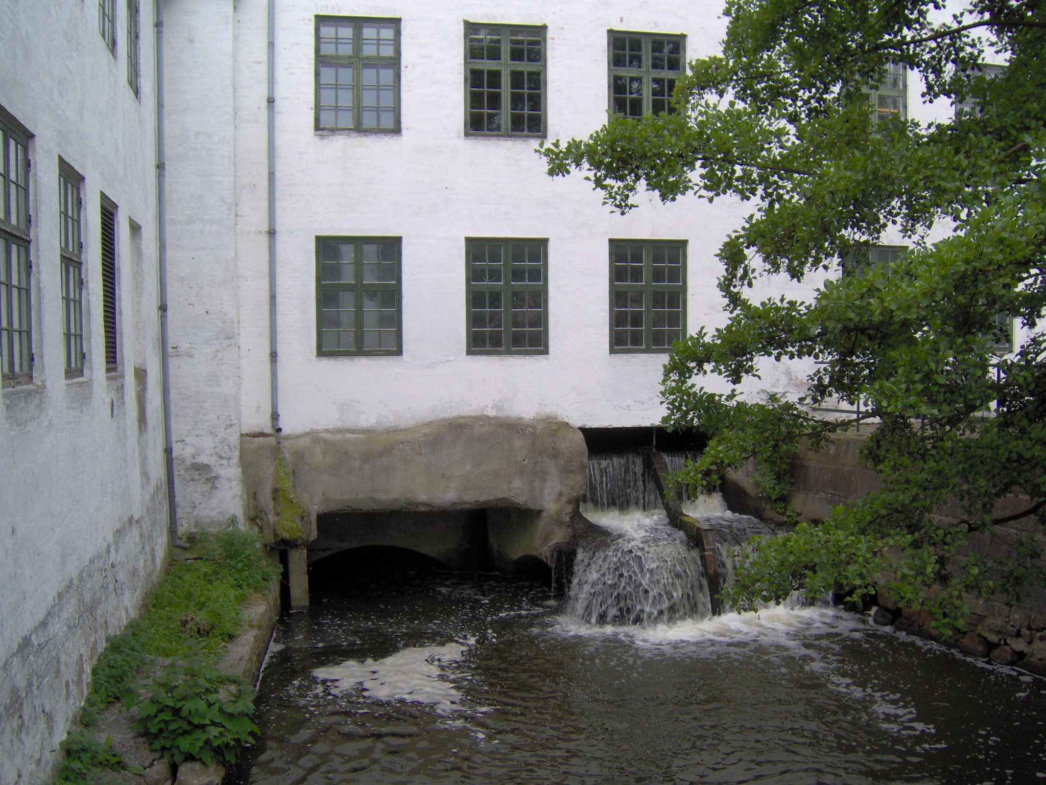 Water running under the house :)